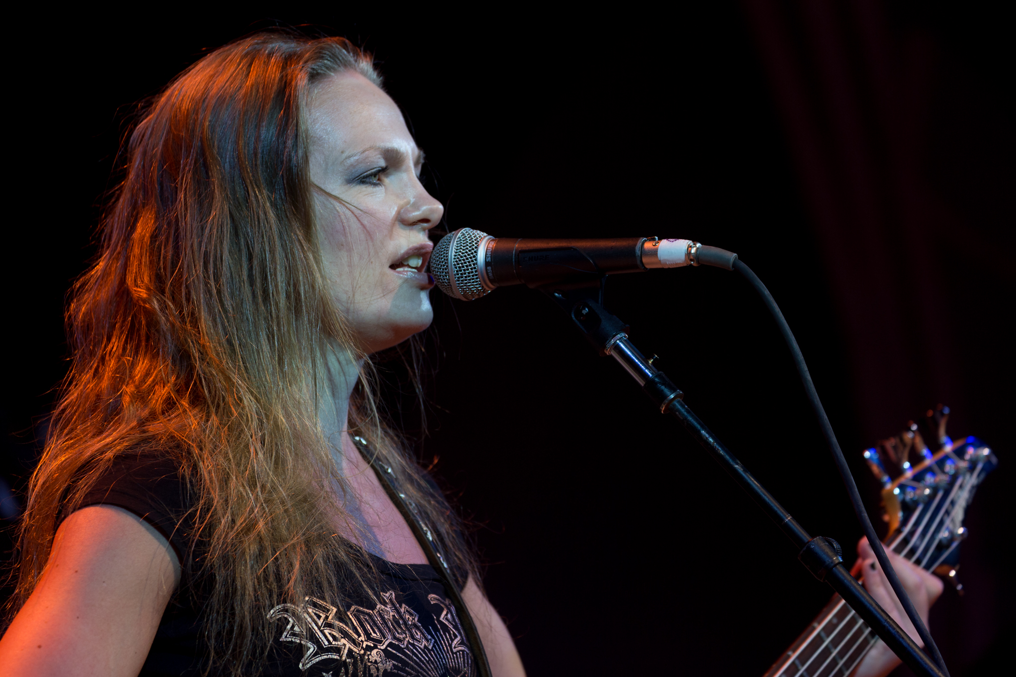 Triosphere performing at 70.000 tons of metal, january 2015